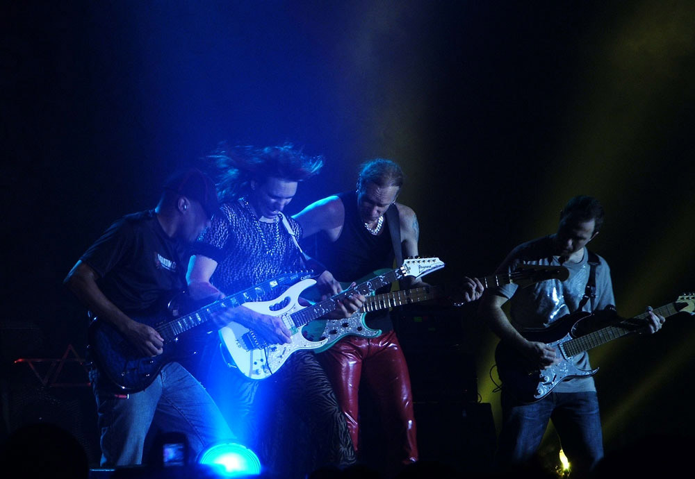 Steve vai in Milan (Alcatraz), 25th September 2005.